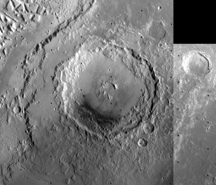 Sagan crater on Mars. Mosaic of two Viking 1 images from camera B (366S24 and 366S26). Minus Blue filter was used for these images. Resolution is about 213 m/pixel. Rotated so that approximate north is at top. Emission Angle: 10.3 Incidence Angle: 66 Latitude: 9.4 Longitude: 330 Phase Angle: 61